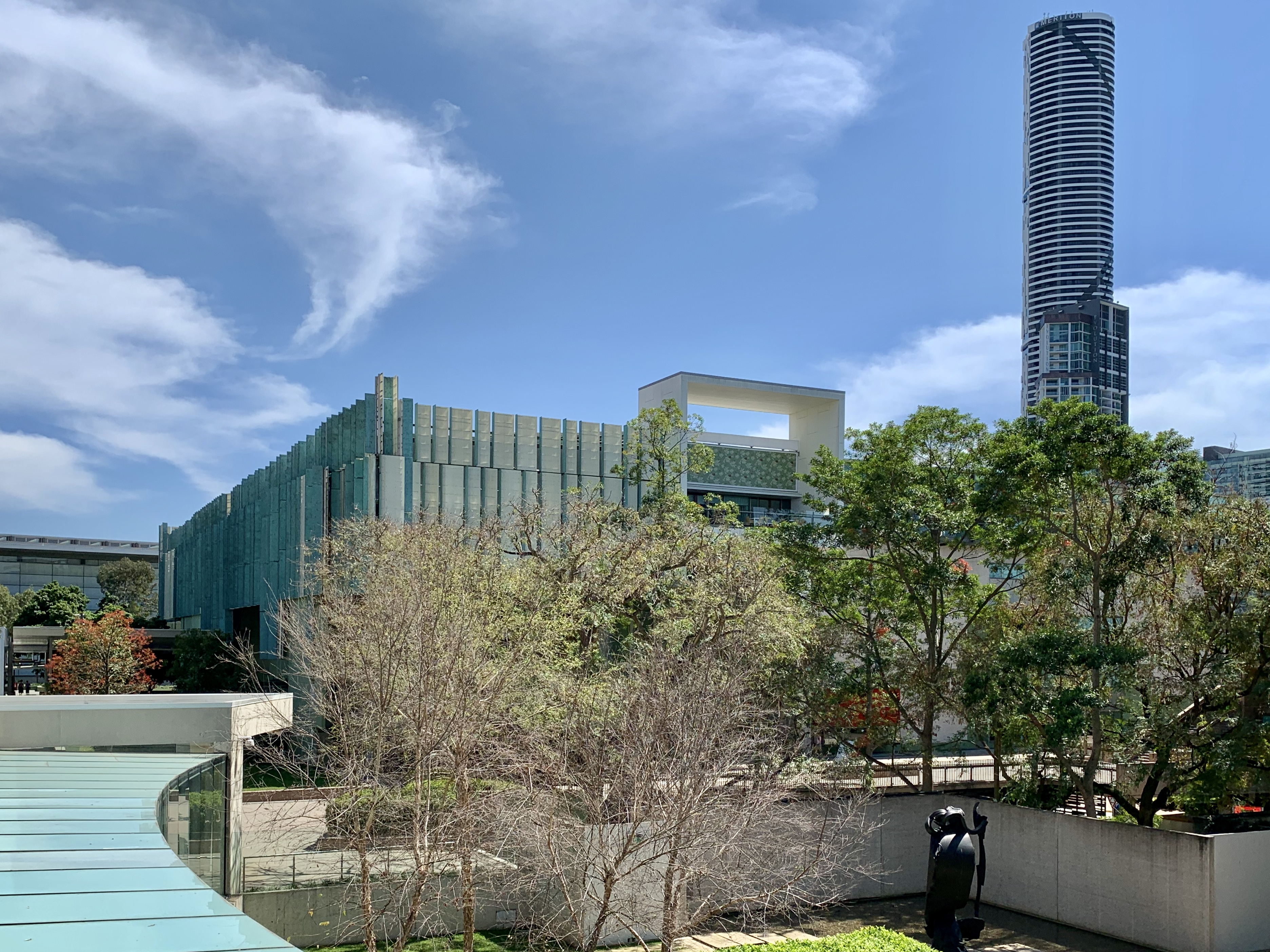 State Library of Queensland building, Brisbane, Queensland